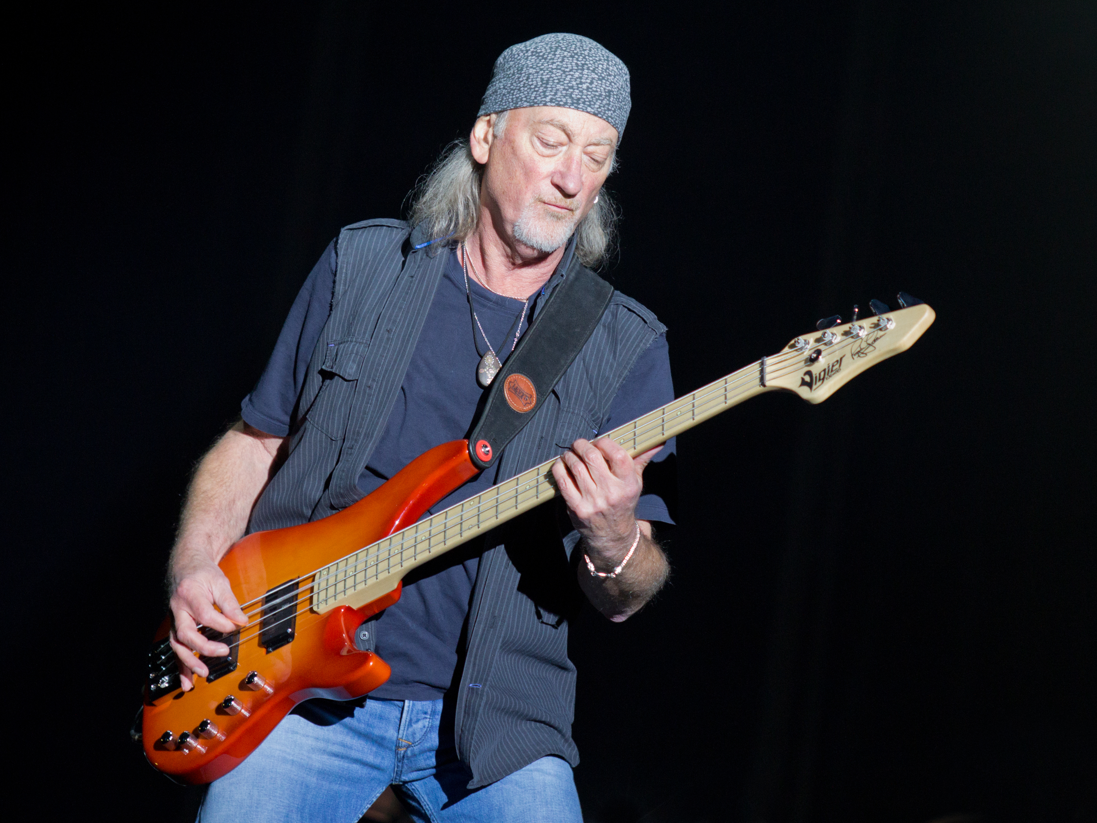 Roger Glover live with Deep Purple performing at Músicos en la naturaleza 2013 in Hoyos del Espino, Ávila, Spain.